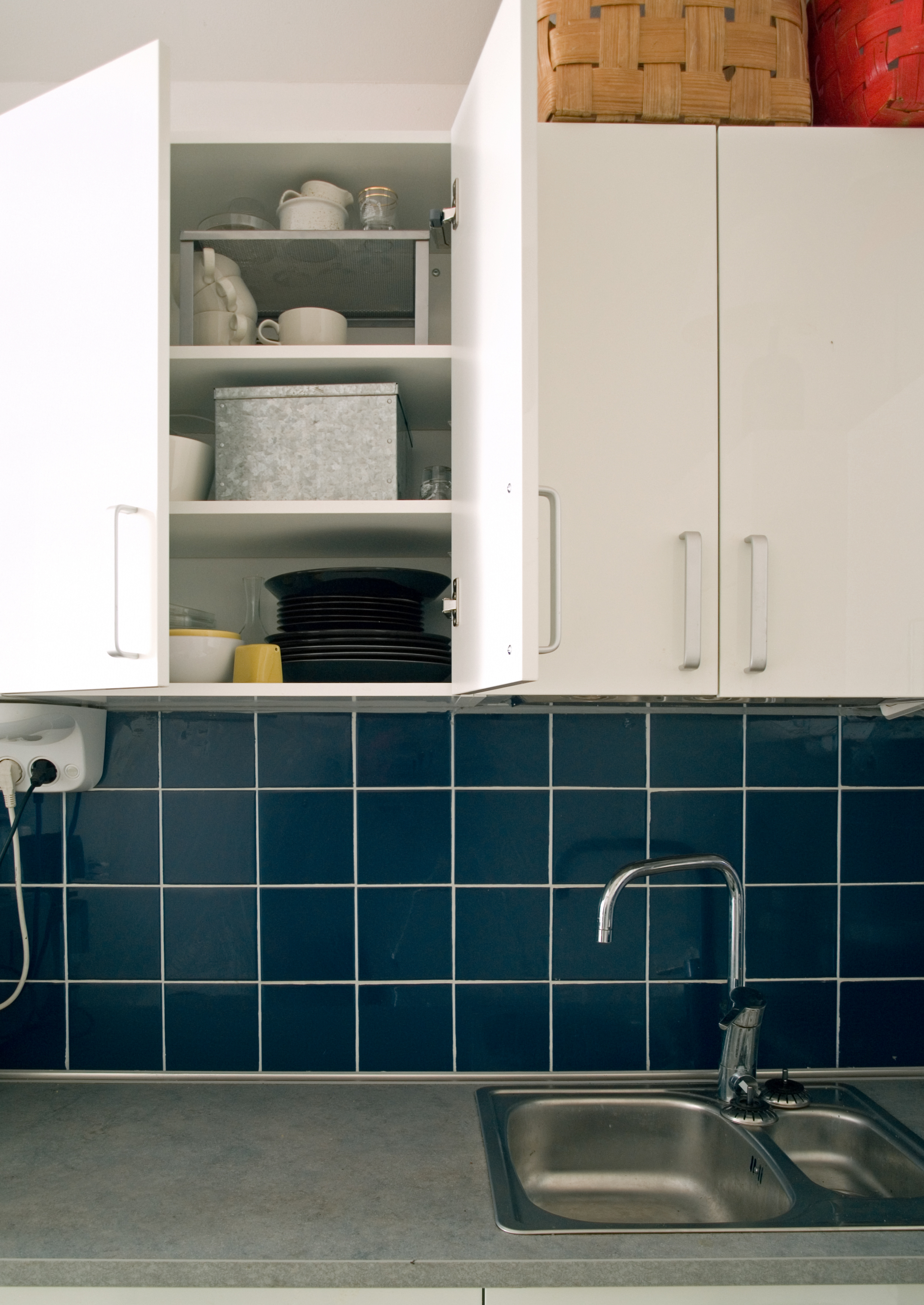 Glossy white kitchen cupboards, one opened to show shelves. Ceramic tiles, stainless steel sink.